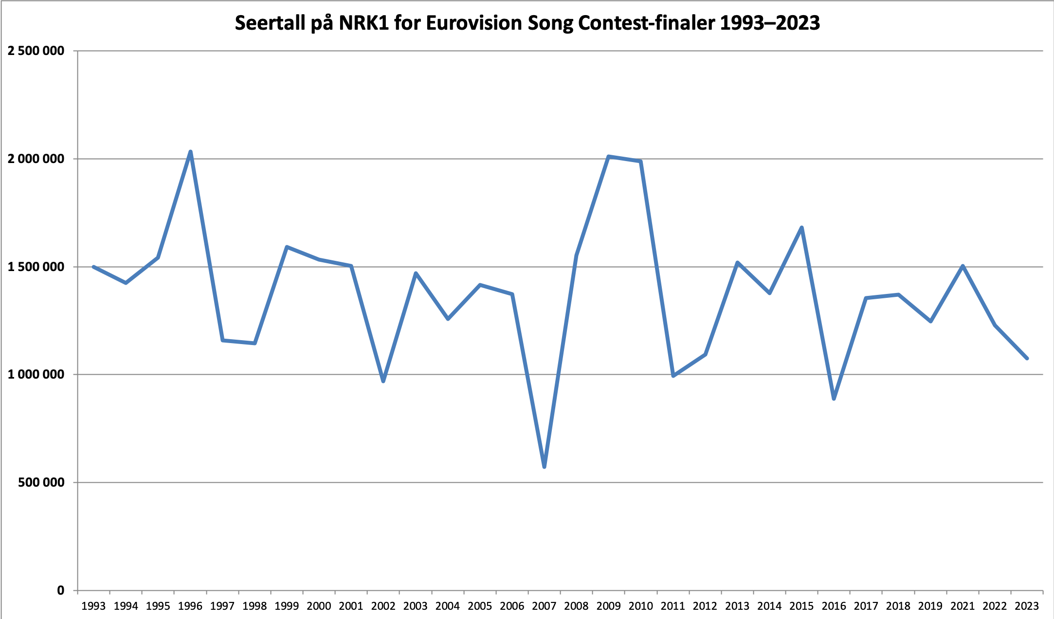 Norwegian viewership for Eurovision Song Contest finals 1993–2019. NRK1 only.